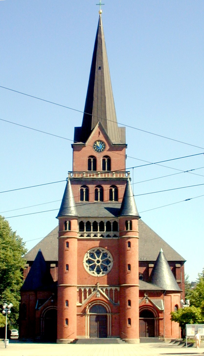 roman catholic church St. Marien in Witten